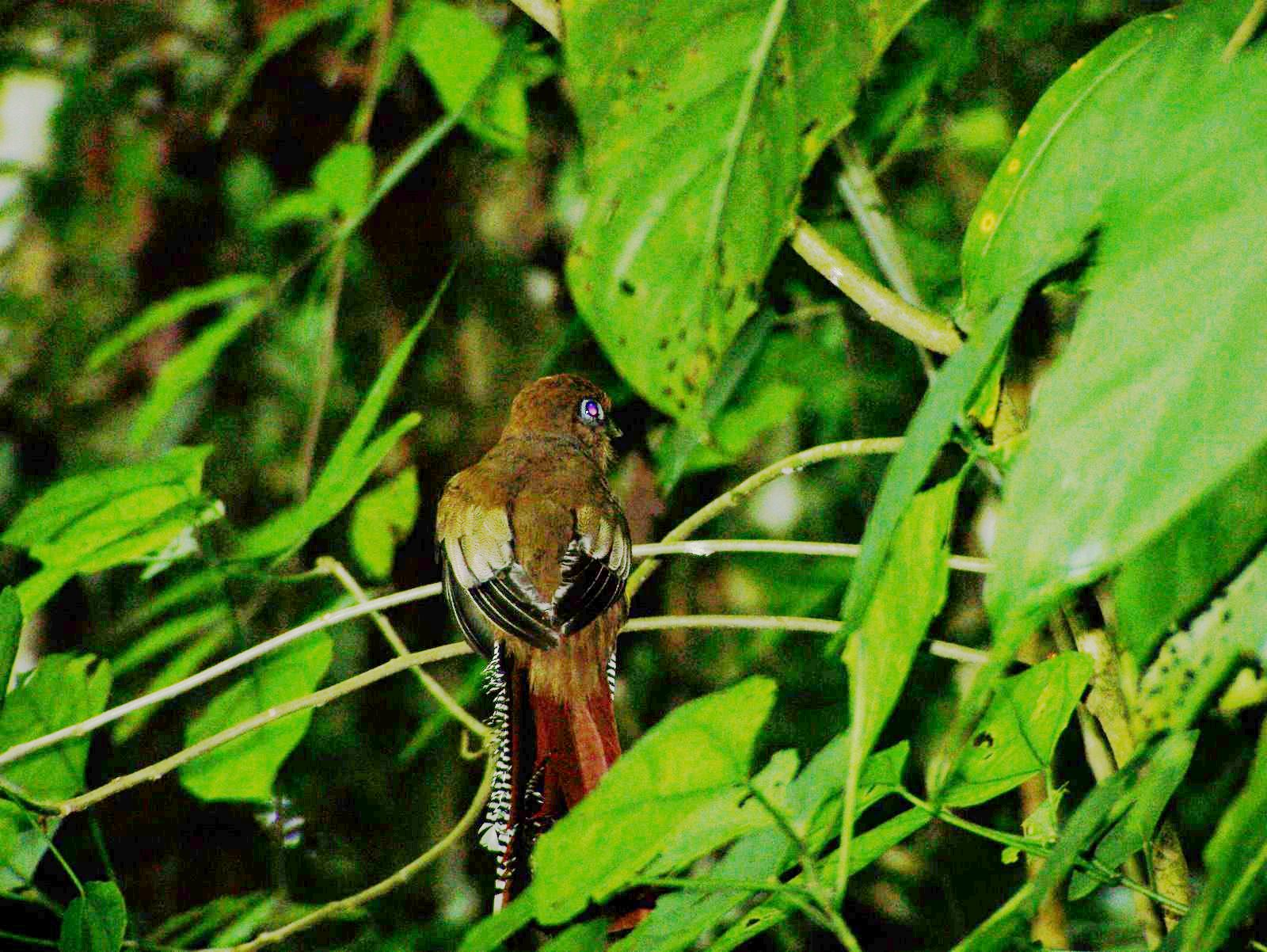 Black-throated trogon female (Trogon rufus) in Carara, Costa Rica